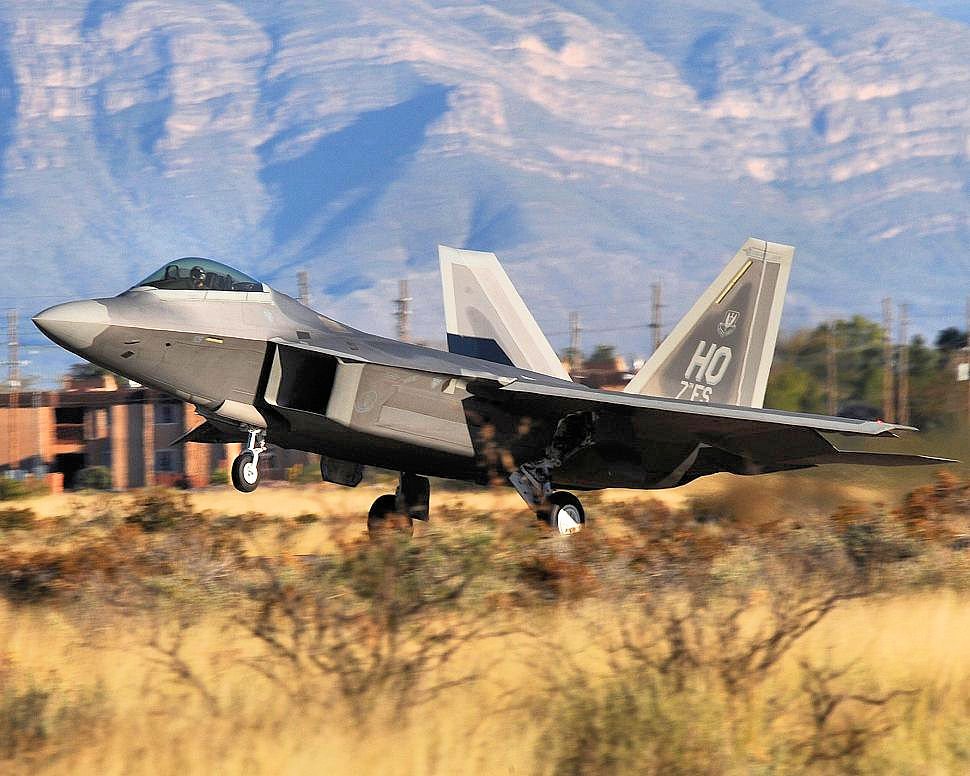 USAF F-22A block 30 no. 05-4106, 7th FS takes off from Holloman AFB, October 22, 2008 for training missions in the local area. It is the first time Holloman launches the fleet of F-22's to test the aircraft's ability to fly two ship operations. [USAF photo by TSgt. Chris Flahive]